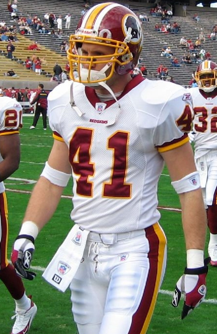 Defensive back #41 Matt Bowen (en) of the Washington Redskins